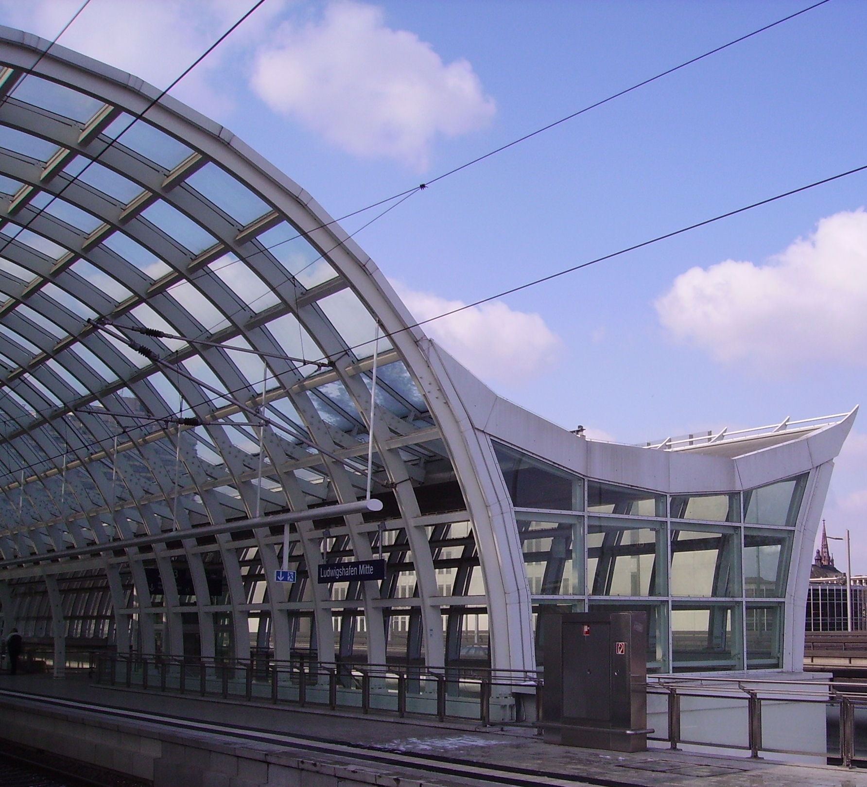 in Ludwigshafen, Germany